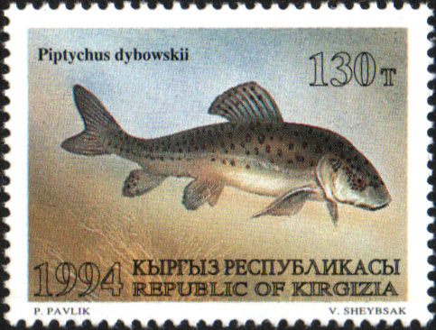 Gymnodiptychus dybowskii (syn. Diptychus dybowskii) on stamp of Kyrgyzstan